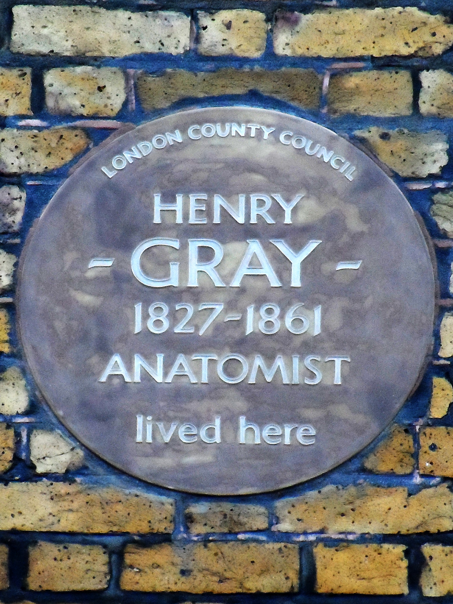 Brown plaque erected in 1947 by London County Council at 8 Wilton Street, Belgravia, London SW1X 7AF, City of Westminster